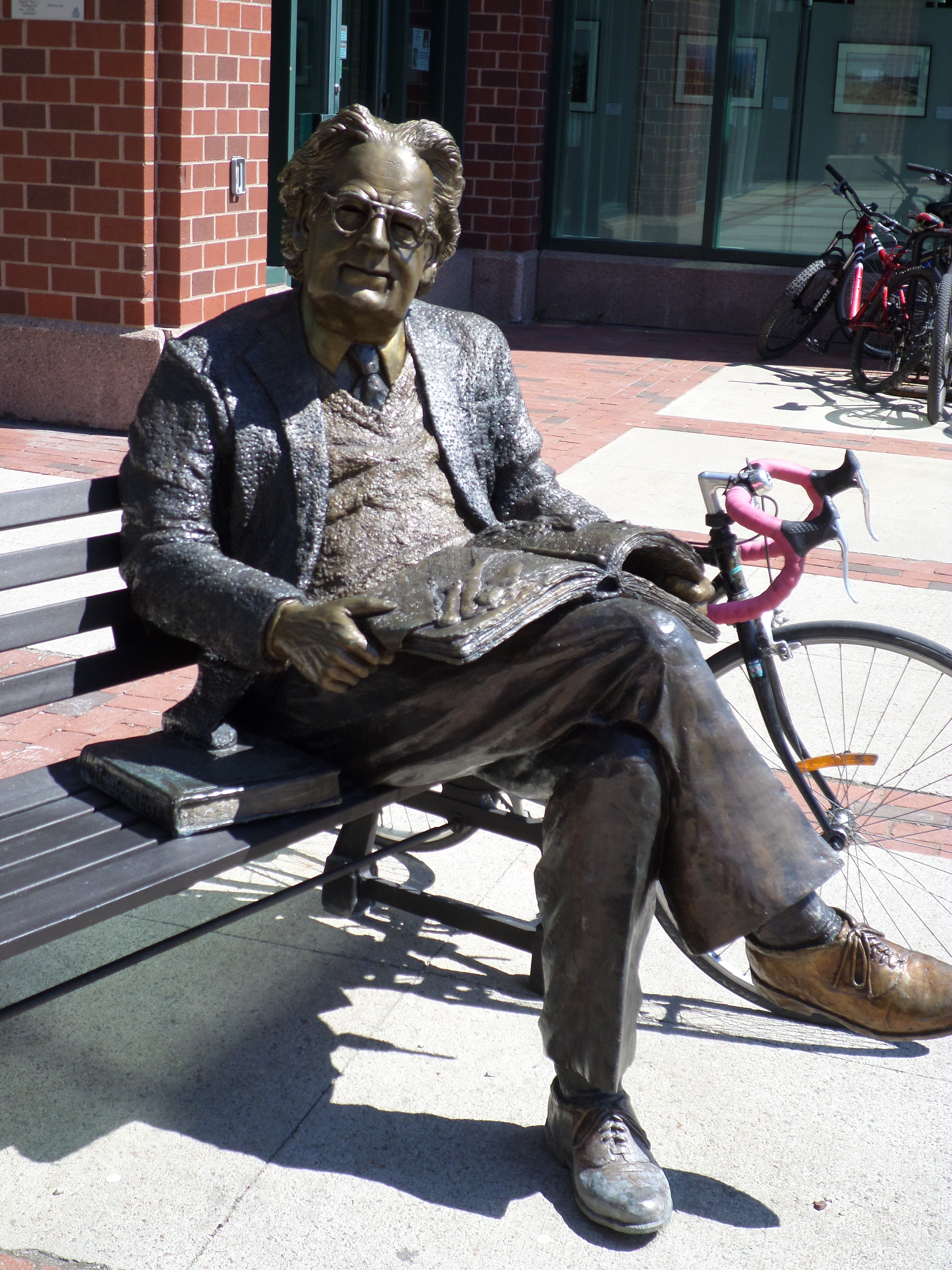 Writer Northrop Frye statue in Moncton